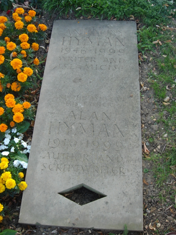 Anthony Hyman grave in Brompton Cemetery.